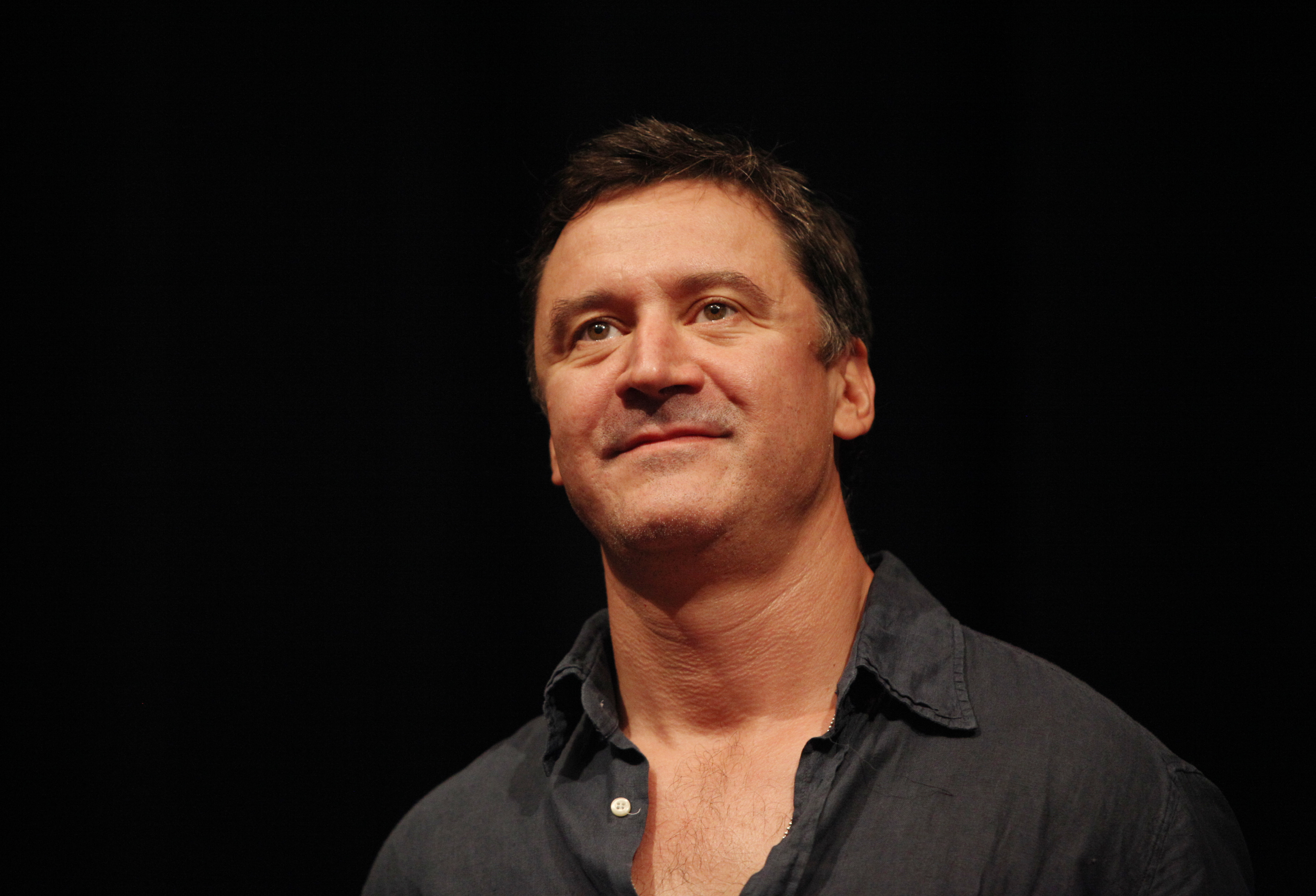 Canadian actor François Papineau at 2010 Karlovy Vary International Film Festival